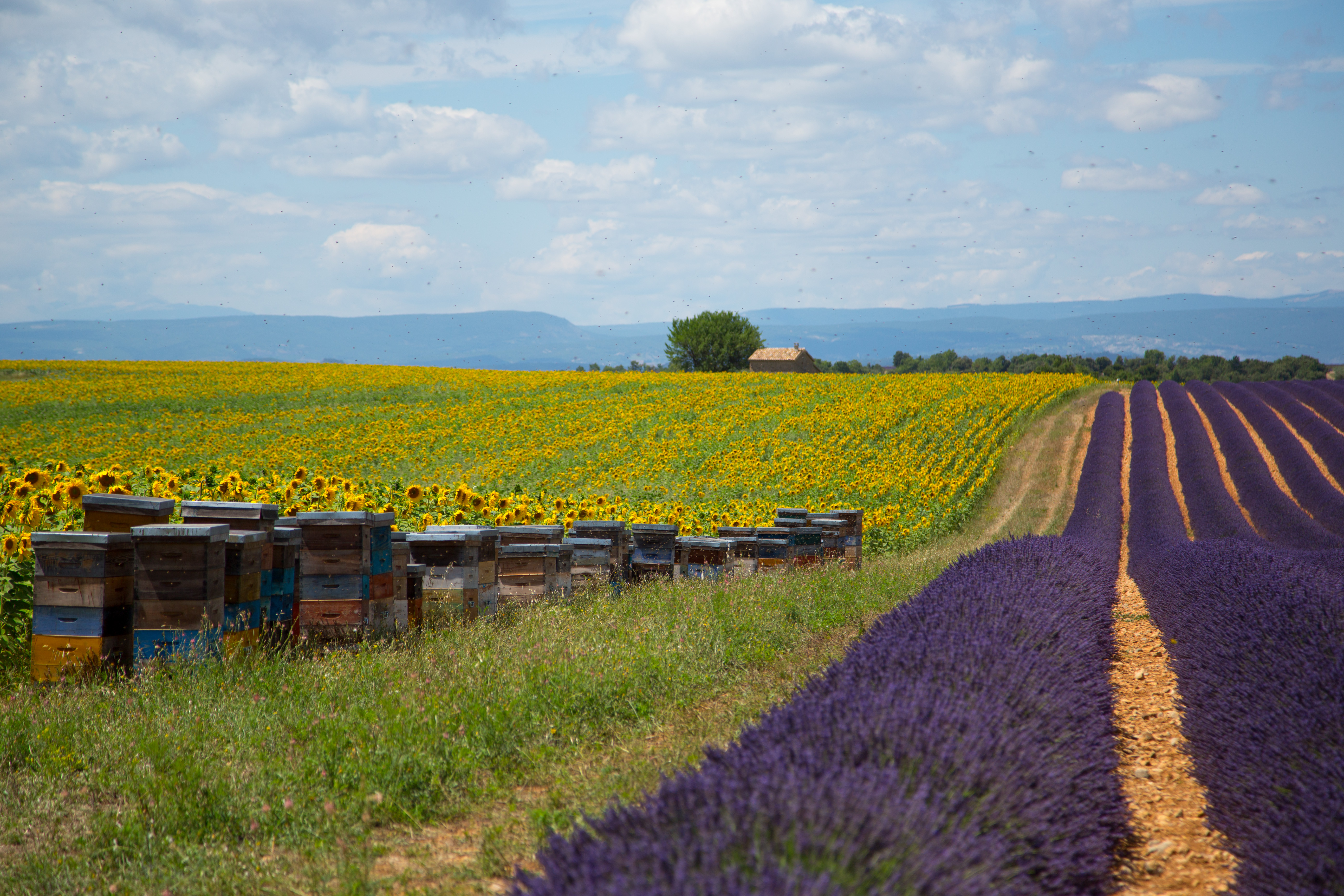 Bees outside Aix-en-Provence